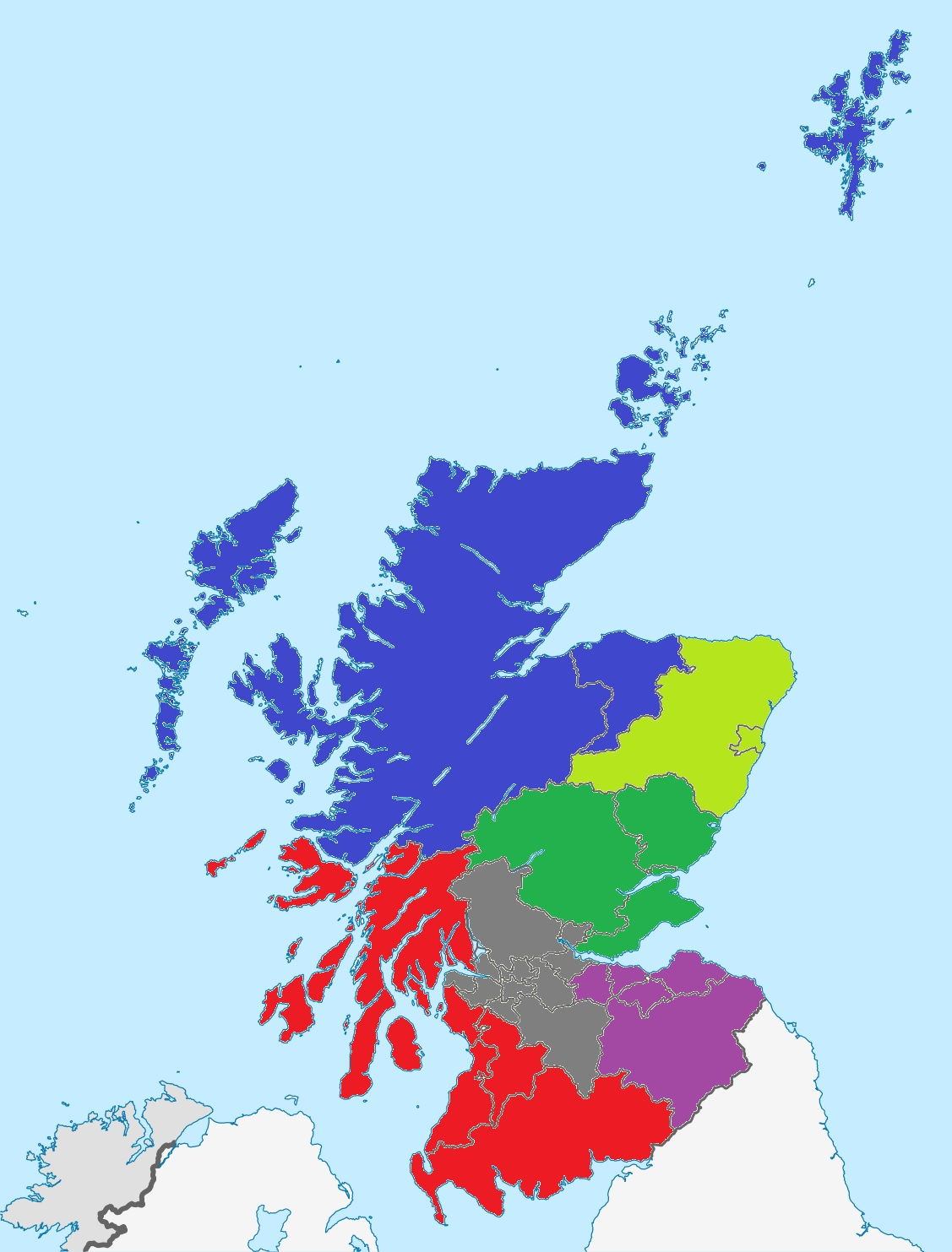 Made with File:BLANK in Scotland.svg